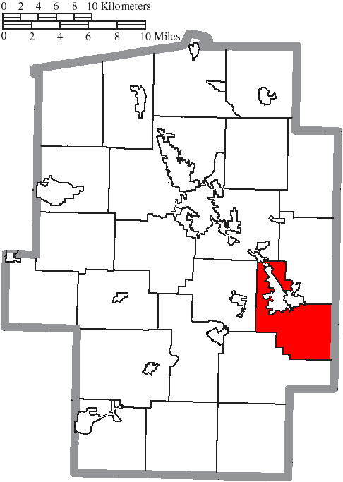 Map of the municipal and township boundaries of Tuscarawas County, Ohio, United States, as of the 2000 census, with the location of Mill Township highlighted. Township borders are shown only in unincorporated areas in order to differentiate incorporated and unincorporated areas more clearly.